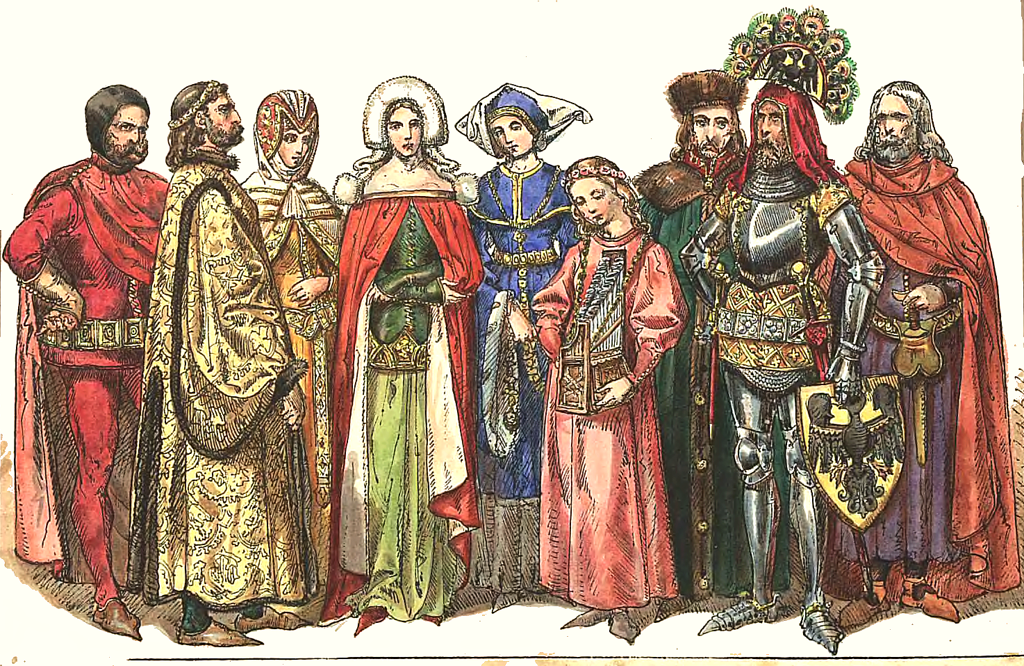 Polish magnates 1333-1434